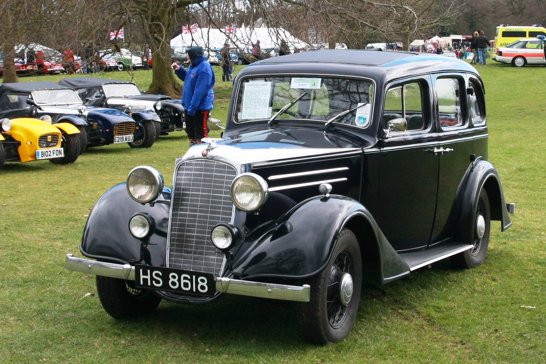 Vauxhall 14 Light 6 (1935) at Weston Park (2016)